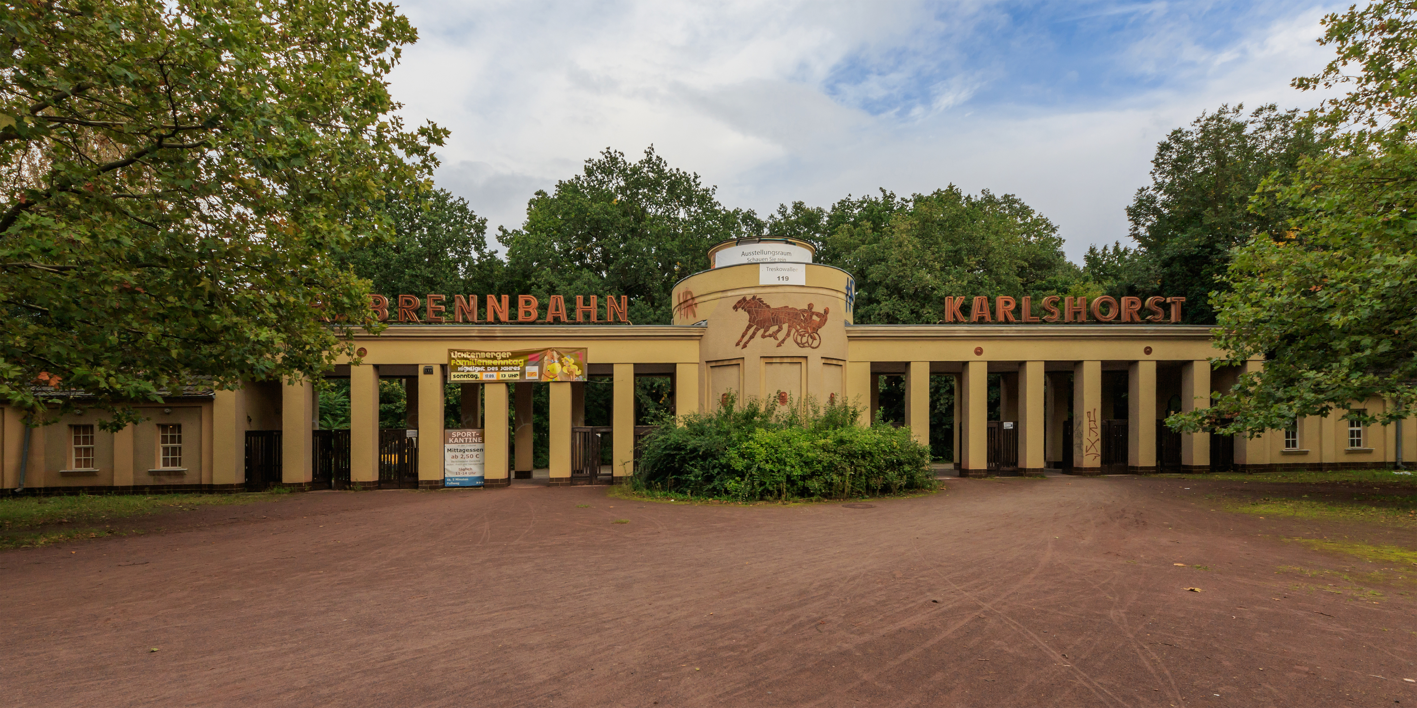 Karlshorst Racecourse in Berlin (Germany)